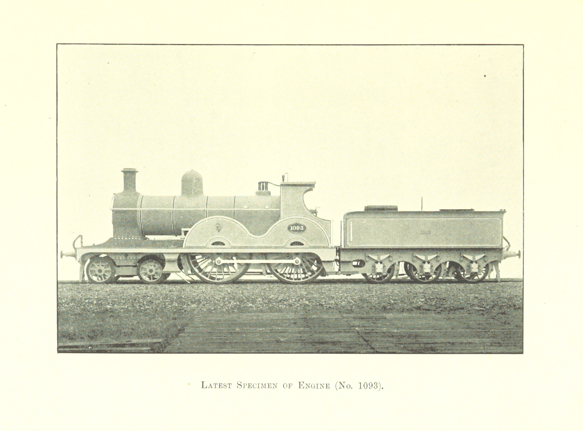 Image taken from: Title: "The Lancashire and Yorkshire Railway, etc" Author(s): Normington, Thomas [person] British Library shelfmark: "Digital Store 010358.k.1" Page: 215 (scanned page number - not necessarily the actual page number in the publication) Place of publication: Manchester (England) Date of publication: 1898 Publisher: J. Heywood Type of resource: Monograph Language(s): English Physical description: 375 pages (8°) Explore this item in the British Library’s catalogue: 002671148 (physical copy) and 014840862 (digitised copy) (numbers are British Library identifiers) Other links related to this image: - View this image as a scanned publication on the British Library’s online viewer (you can download the image, selected pages or the whole book) - Order a higher quality scanned version of this image from the British Library Other links related to this publication: - View all the illustrations found in this publication - View all the illustrations in publications from the same year (1898) - Download the Optical Character Recognised (OCR) derived text for this publication as JavaScript Object Notation (JSON) - Explore and experiment with the British Library’s digital collections The British Library community is able to flourish online thanks to freely available resources such as this. You can help support our mission to continue making our collection accessible to everyone, for research, inspiration and enjoyment, by donating on the British Library supporter webpage here. Thank you for supporting the British Library.